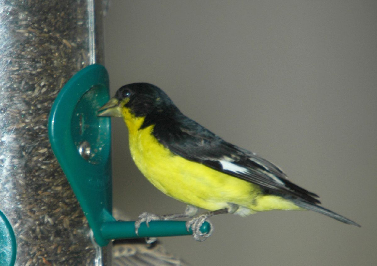 Lesser Goldfinch Spinus psaltria psaltria, male, on a feeder. San Marcos, Texas, USA.